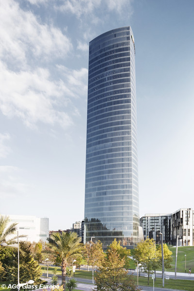 Building : Torre Iberdrola Location : Bilbao, Spain Architect: César Pelli Photographer: JM Byl Product : Stopray Vision-60T